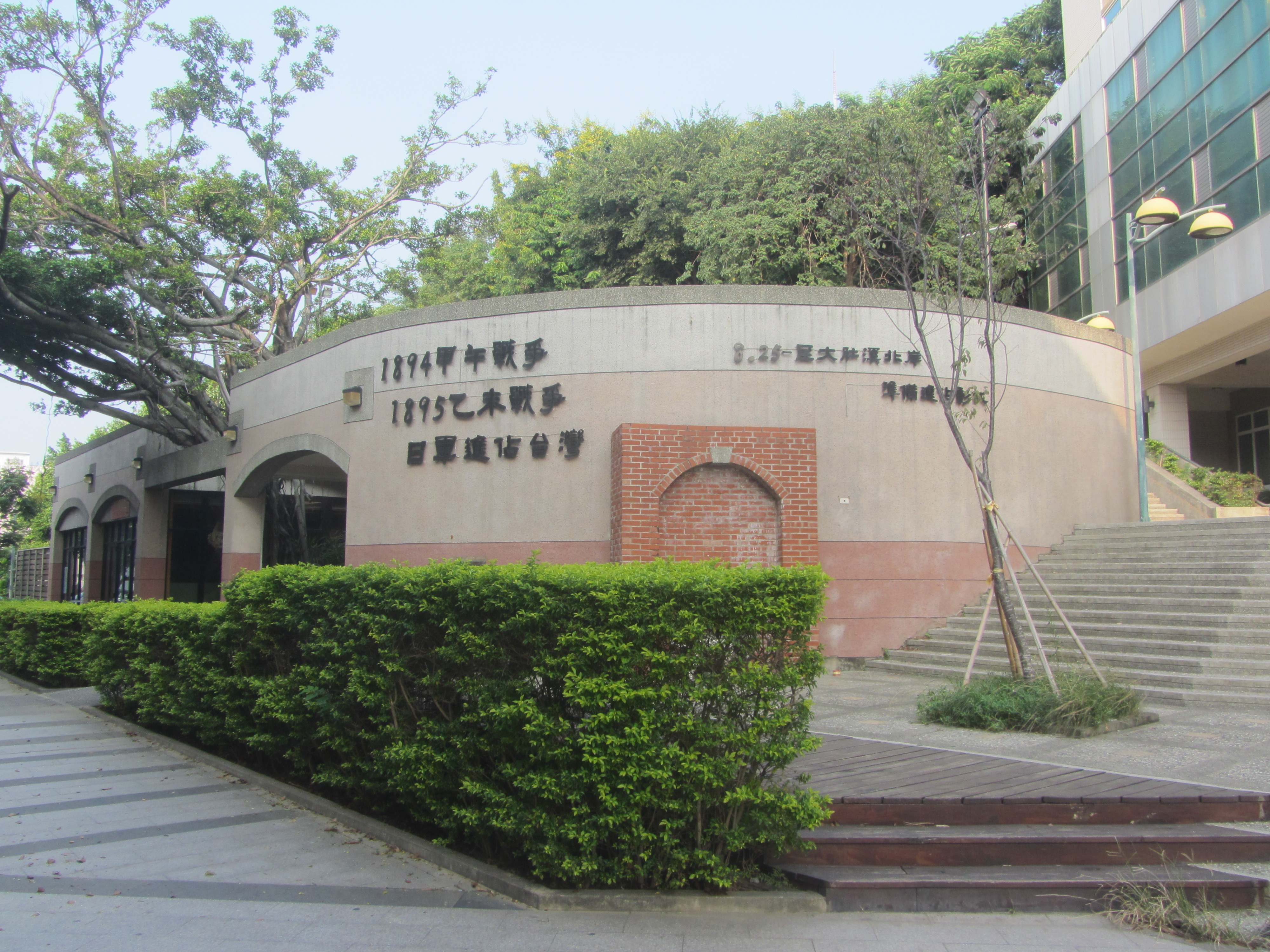 1895 Baguashan Anti-Japanese Martyrs' Museum